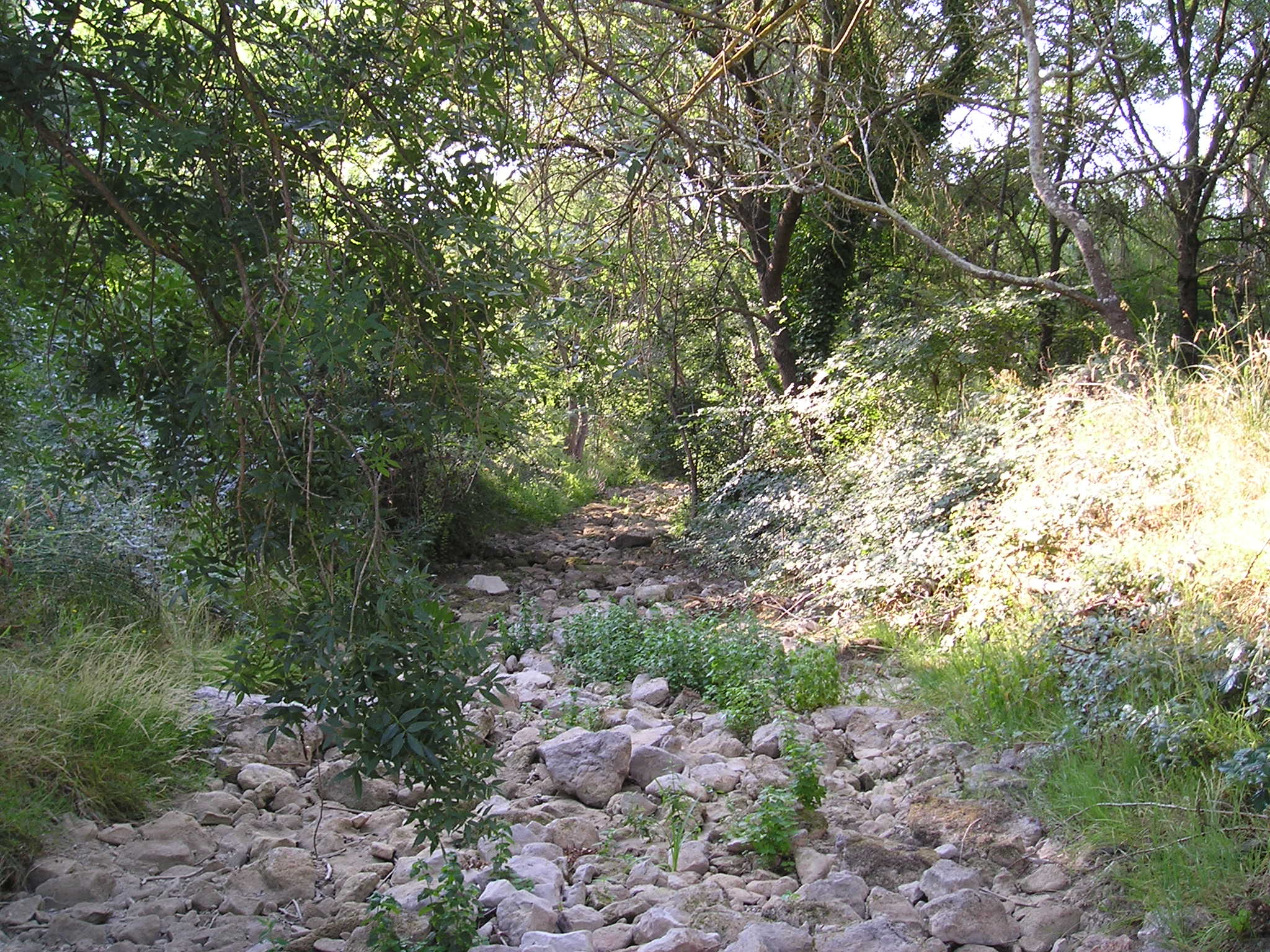 In Hérault, south of Castries and near Vendargues, the Cadoule river, dry in summer. View of the upstream turned to the North.